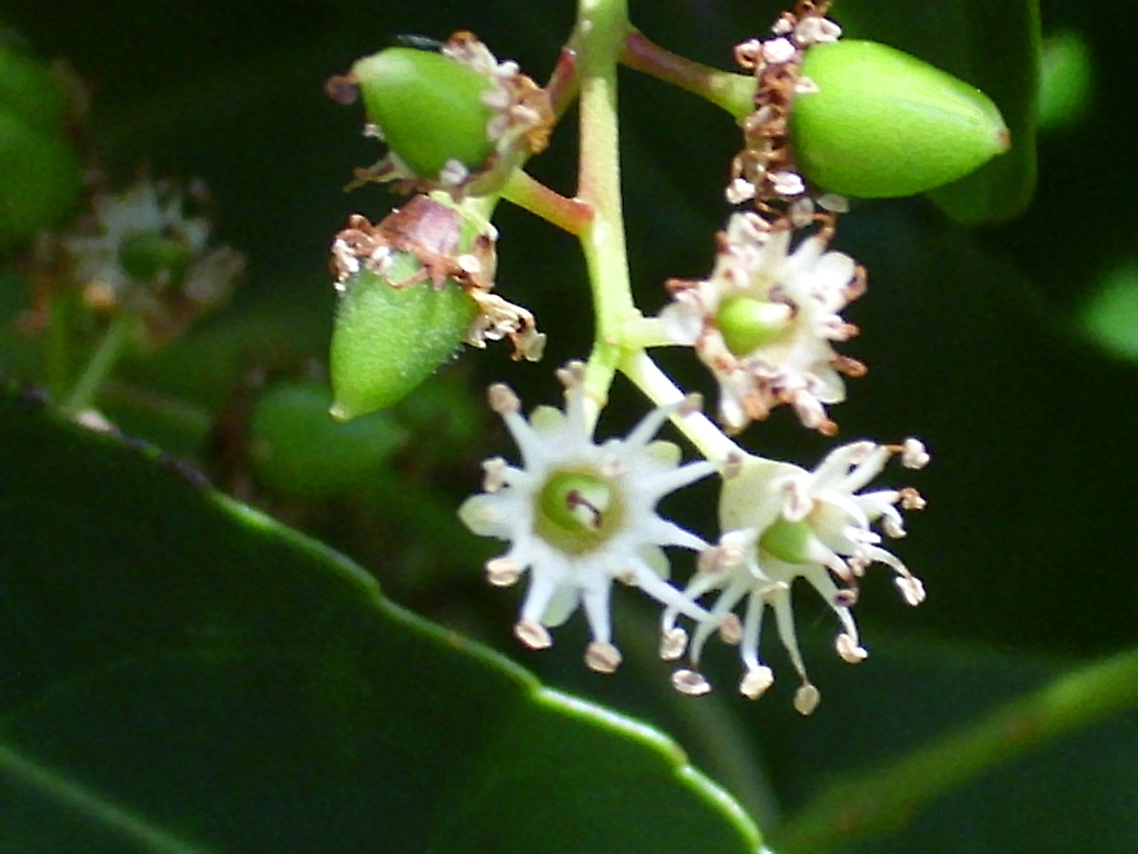 Prunus lusitanica flowers and fruits close up, Dehesa Boyal de Puertollano, Spain